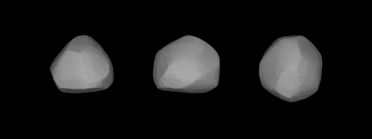 A three-dimensional model of 747 Winchester that was computed using light curve inversion techniques.